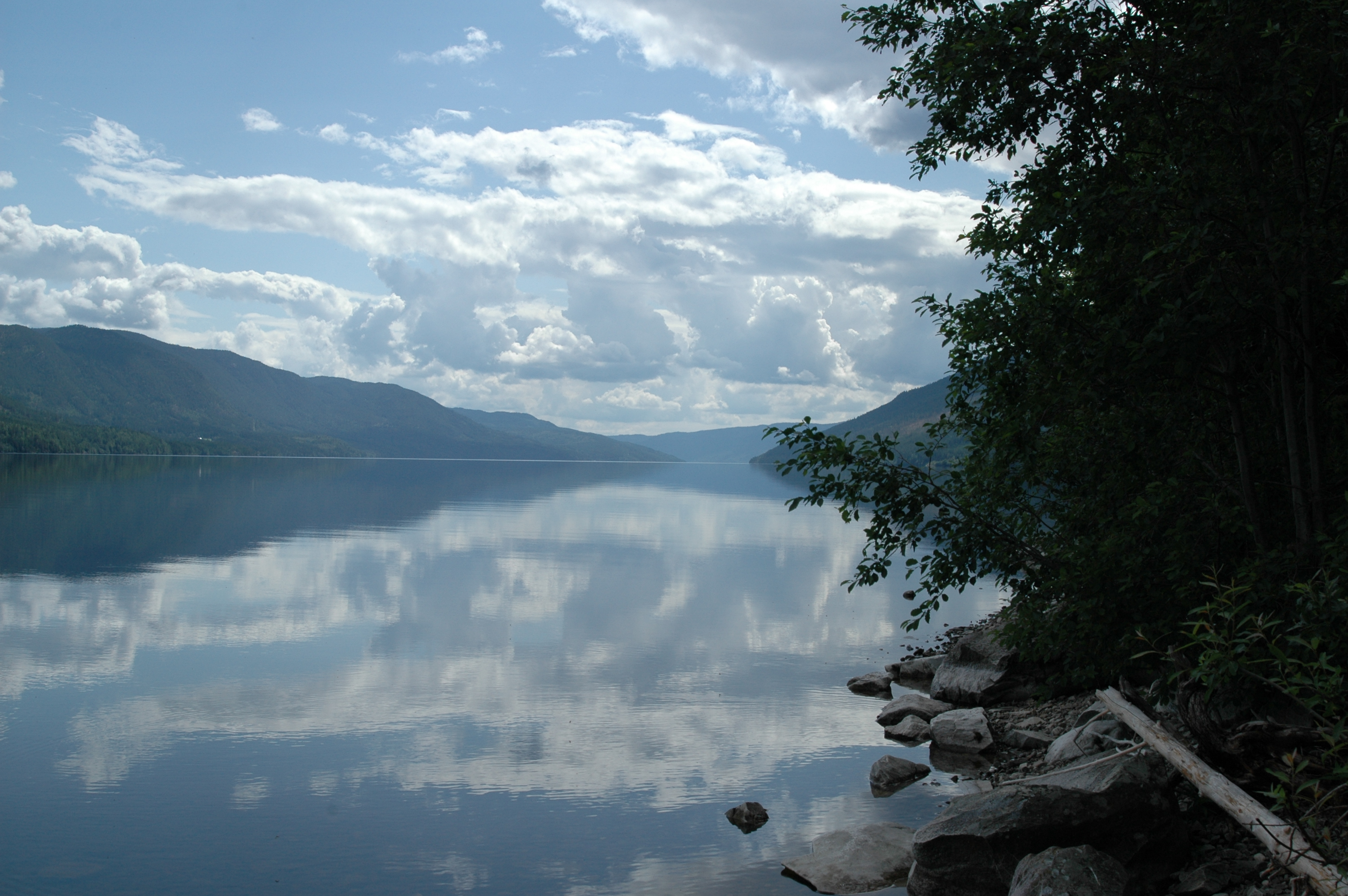 Storsjøen as seen from the western side, looking into the south